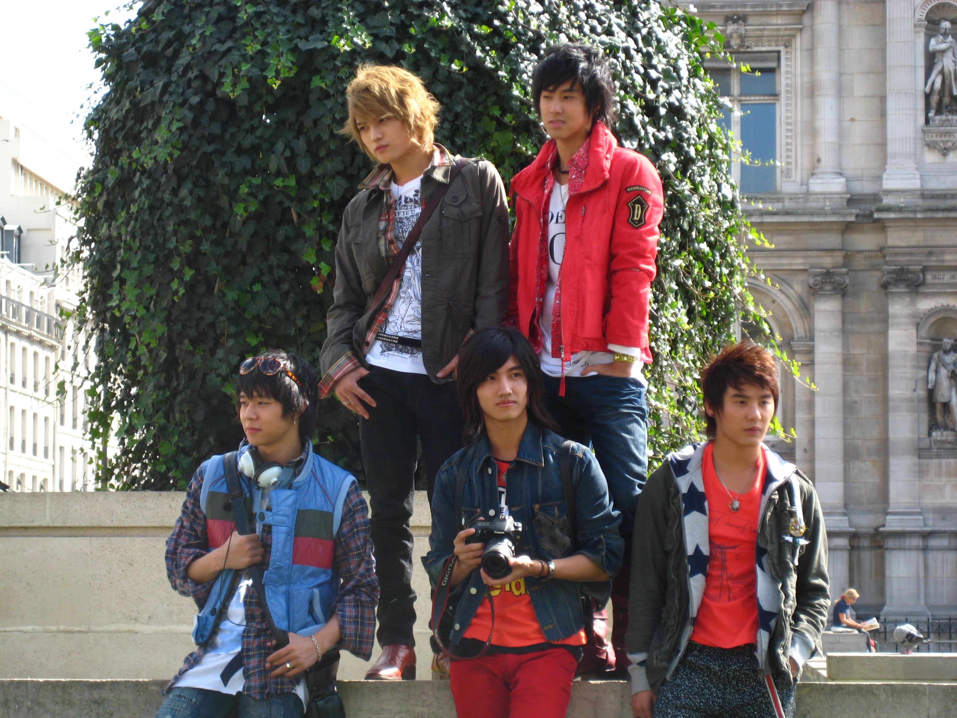 A fan picture taken in Paris, France in 2007 during their short visit to the country for their Bonjour Paris photoshoot. From top-left: Hero Jaejoong, Uknow Yunho; bottom-left: Micky Yoochun, Max Changmin, and Xiah Junsu.